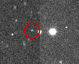 These figures show discovery images of the new Jupiter satellite S/2003 J23 taken about 39 minutes apart on UT February 6, 2003 with the Canada-France-Hawaii Telescope. The motion of the satellite clearly stands out compared to the steady state background of stars and galaxies. Jupiter is not in the field, but is about one degree to the Northwest of these images.